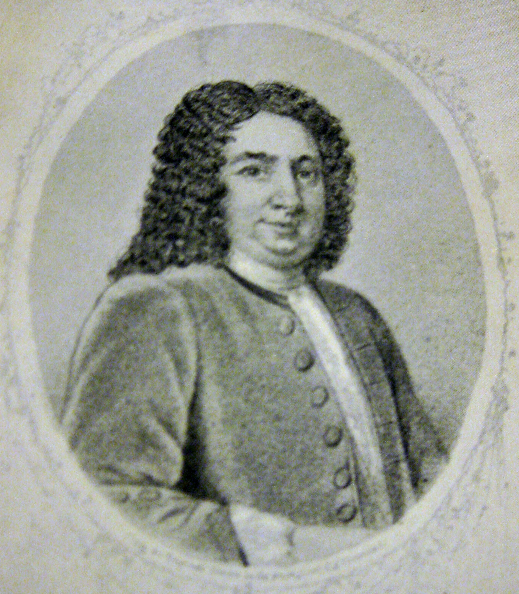 Unknown artist Portrait of John Watson, 1685-1768